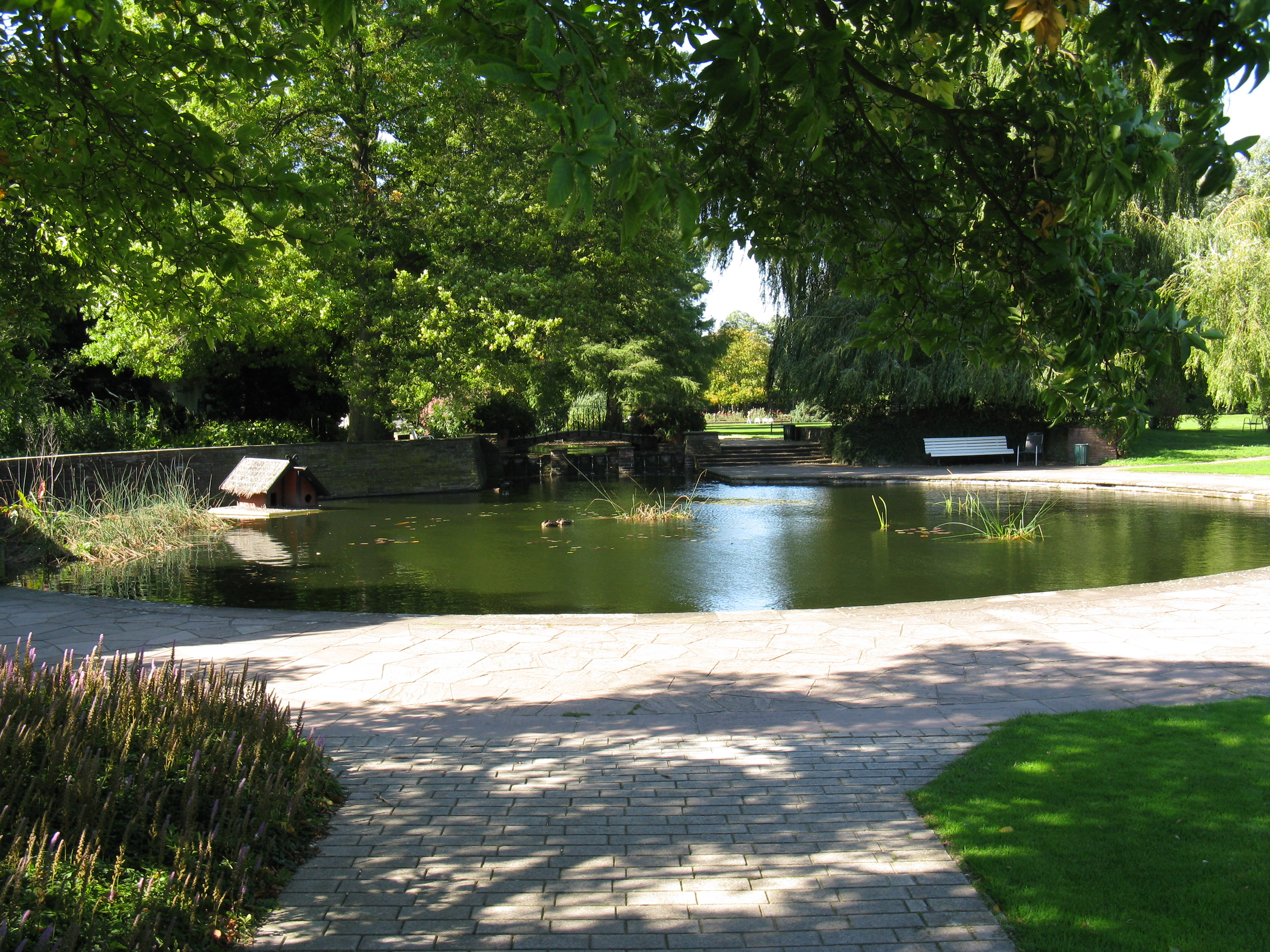 Hannover (Germany, Lower Saxony): Stadtpark (also known as Stadthallengarten)